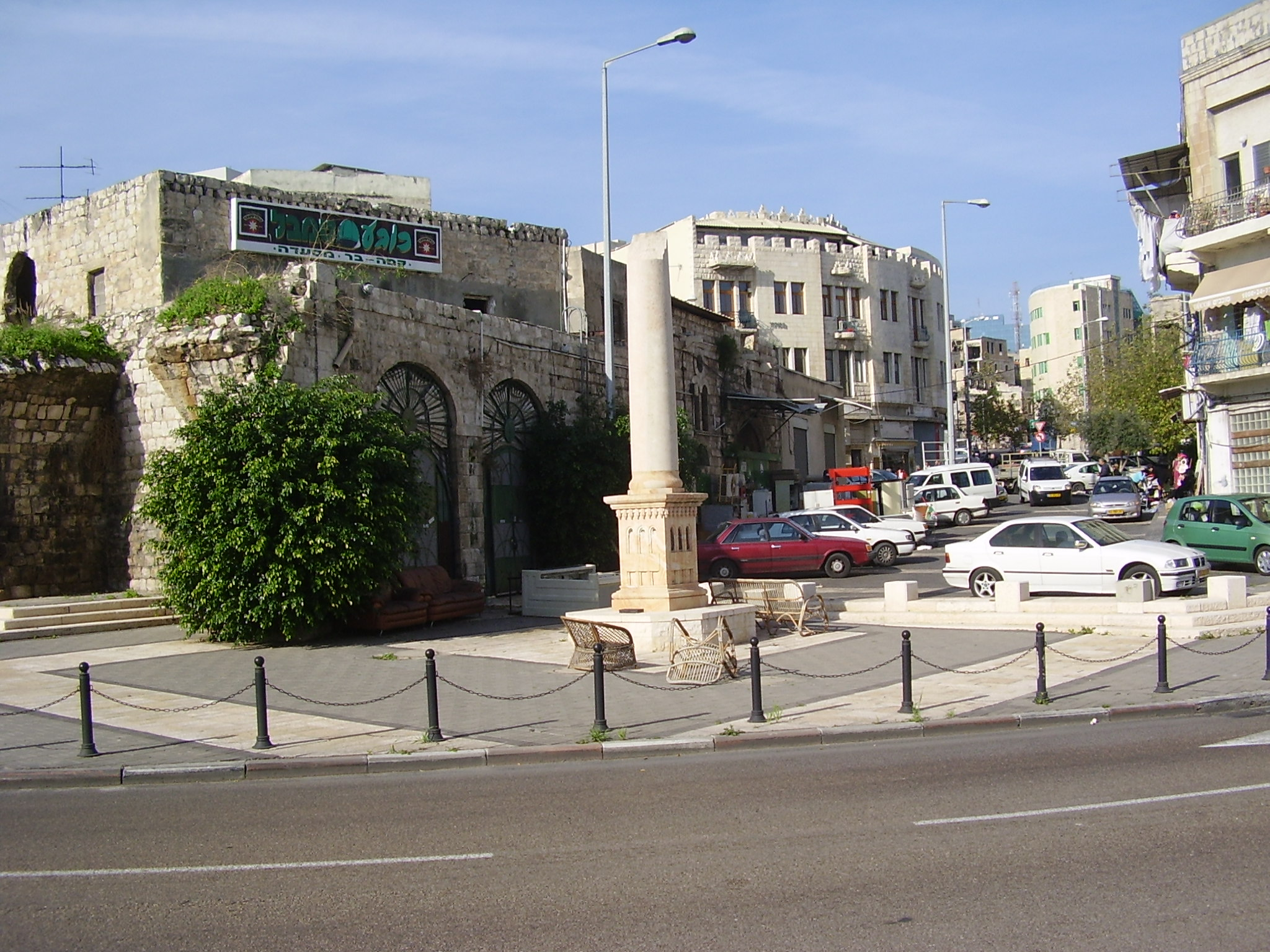 faisal 1 of iraq square in haifa כיכר פייסל הראשון מלך עיראק בחיפה